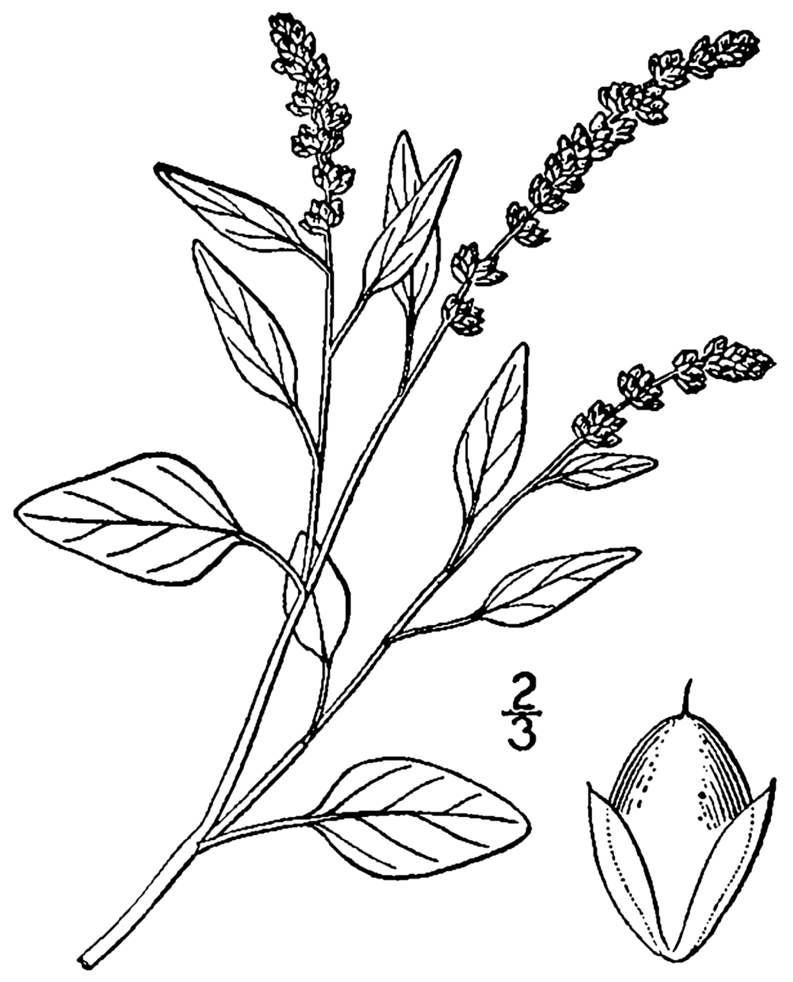 Amaranthus deflexus L. - largefruit amaranth